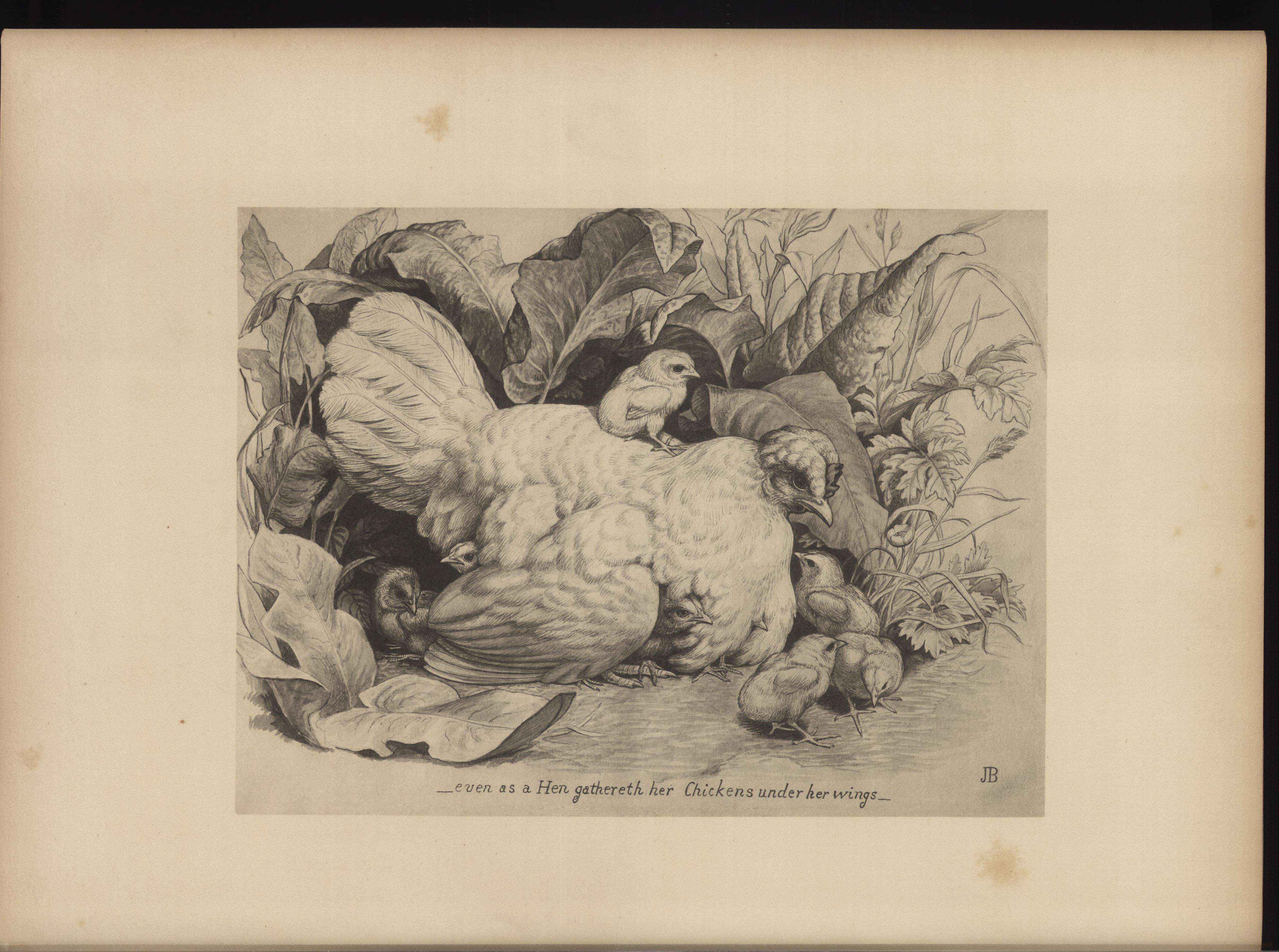 Title: Bible beasts and birds : a new edition of illustrations of scripture by an animal painter Year: 1886 (1880s) Authors: Blackburn, Jemima, 1823-1909 Subjects: Bible Publisher: London : Kegan Paul, Trench & Co. Text Appearing Before Image: ' Text Appearing After Image: '